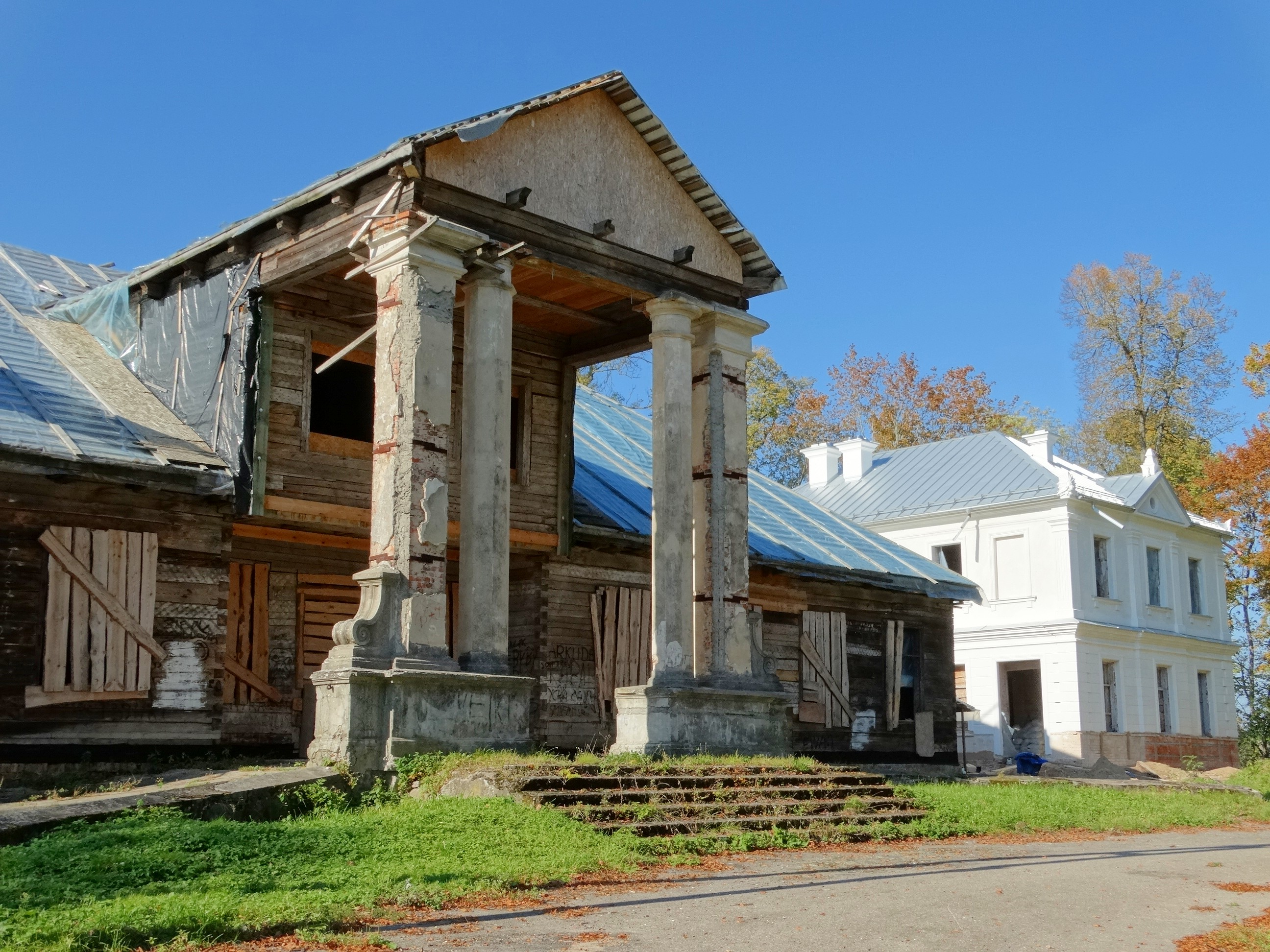 Manor in Abromiškės, Elektrėnai Municipality, Lithuania